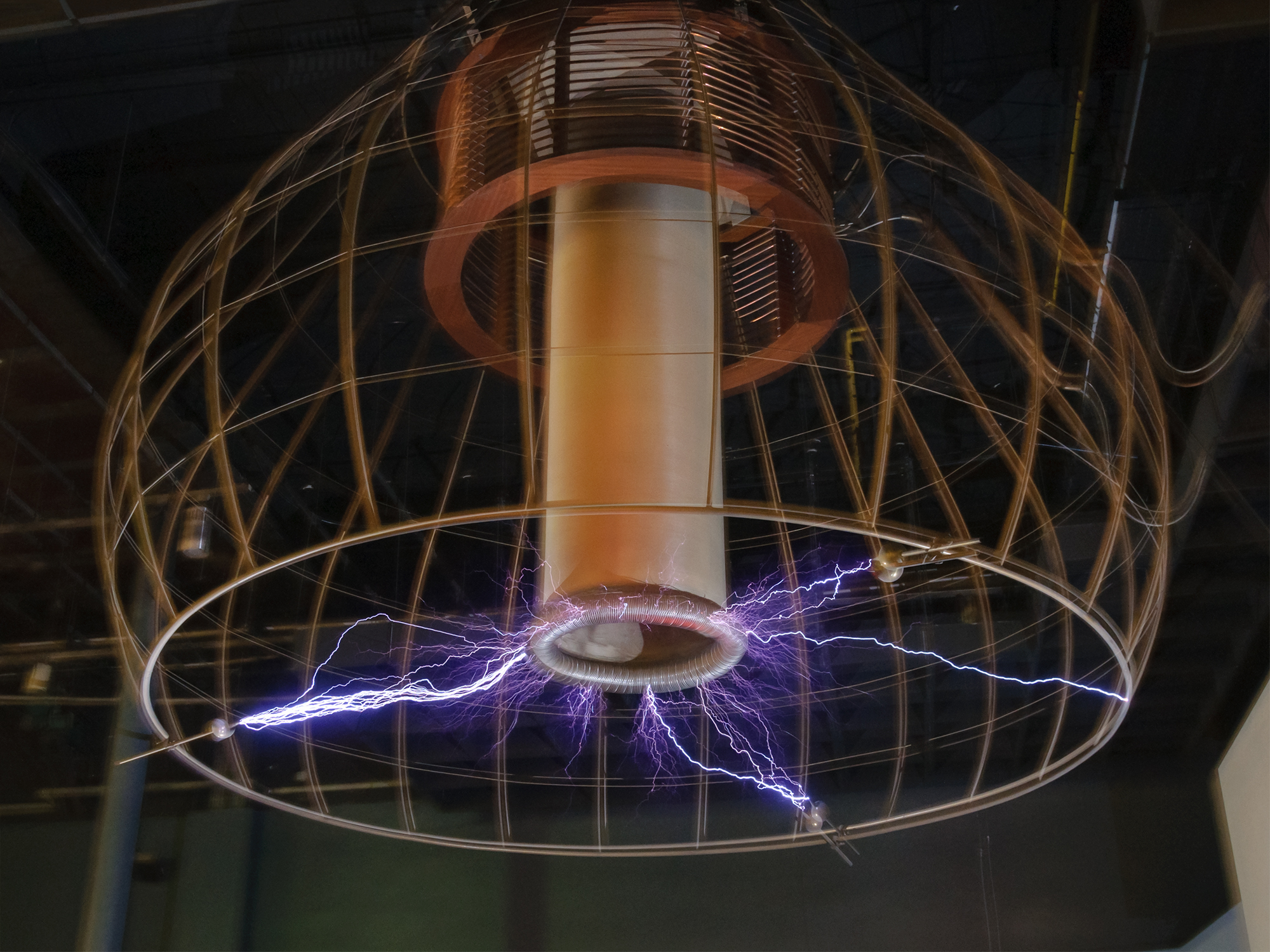 Tesla coil in the Palais de la découverte, Paris, France